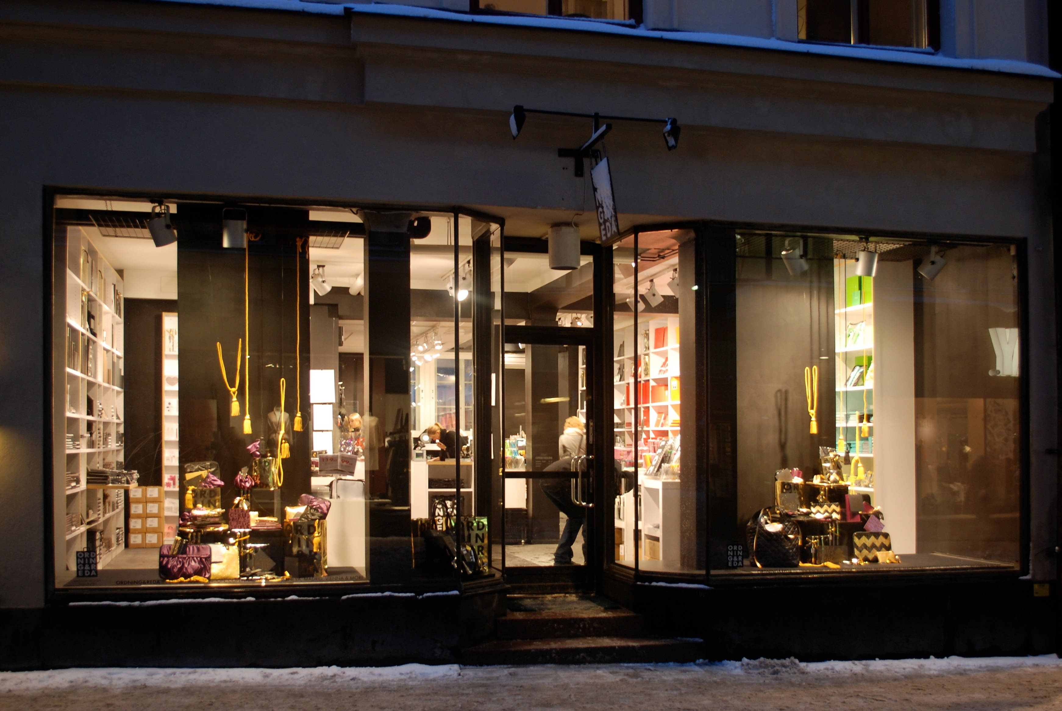 Ordning&Reda shop at Götgatan, Södermalm Stockholm.